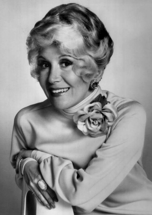 Photo of columnist and television personality Rona Barrett.